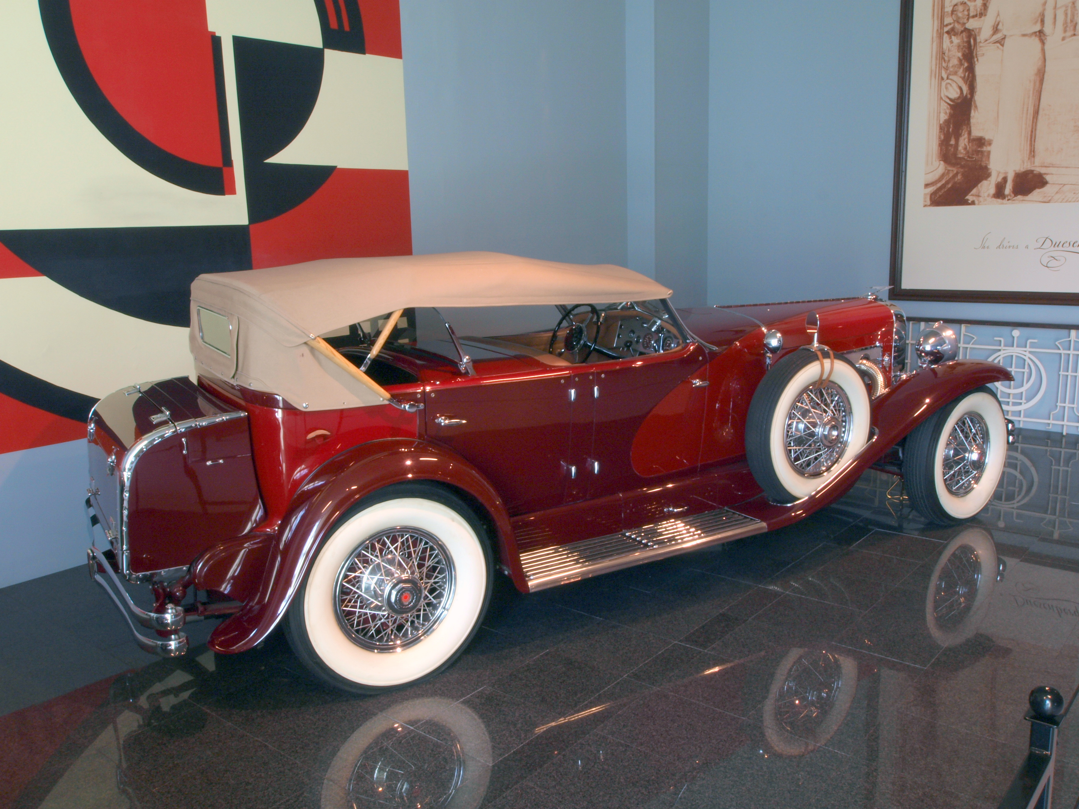 Photographed at the Louwman museum / Louwman Collection, The Netherlands.